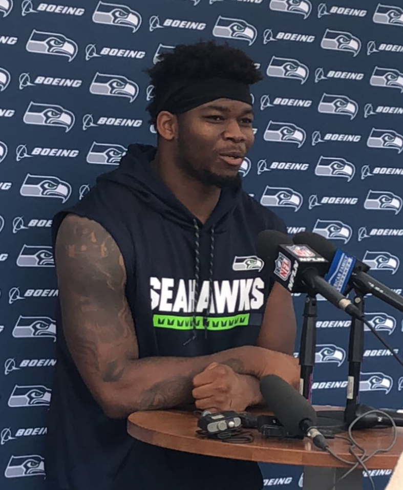 This is a cropped version of a photo I took of Penny at a pre-season press conference.